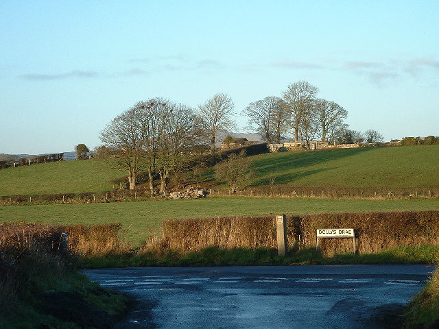 Dollysbrae Road. On July 12, 1849, Orangemen march from Rathfriland to Tollymore Park in County Down, Ireland to celebrate the anniversary of the Battle of Boyne, where William of Orange defeated the Catholic King James II of England. While passing through Magheramayo, which was predominantly Catholic, the group exchanged shots with a number of Ribbonmen. Ribbonism was a strongly Catholic Irish independence movement loosely associated with areas of Ulster and northern Connacht. The Orangemen proceeded to attack Catholic houses within the town, and roughly 30 Catholic people were killed. The event was subsequently known as Dolly's Brae. This incident led to the Party Processions Act. On the 12th July 1849 the Orange Lodges of Ballyward District had visited Tollymore Park to honour the 4th Earl of Roden who was the Grand Master of Ireland. The Lodges turned homewards in procession through Bryansford, leaving Castlewellan by the old county road which now forms the southern boundary of Castlewellan Forest Park.